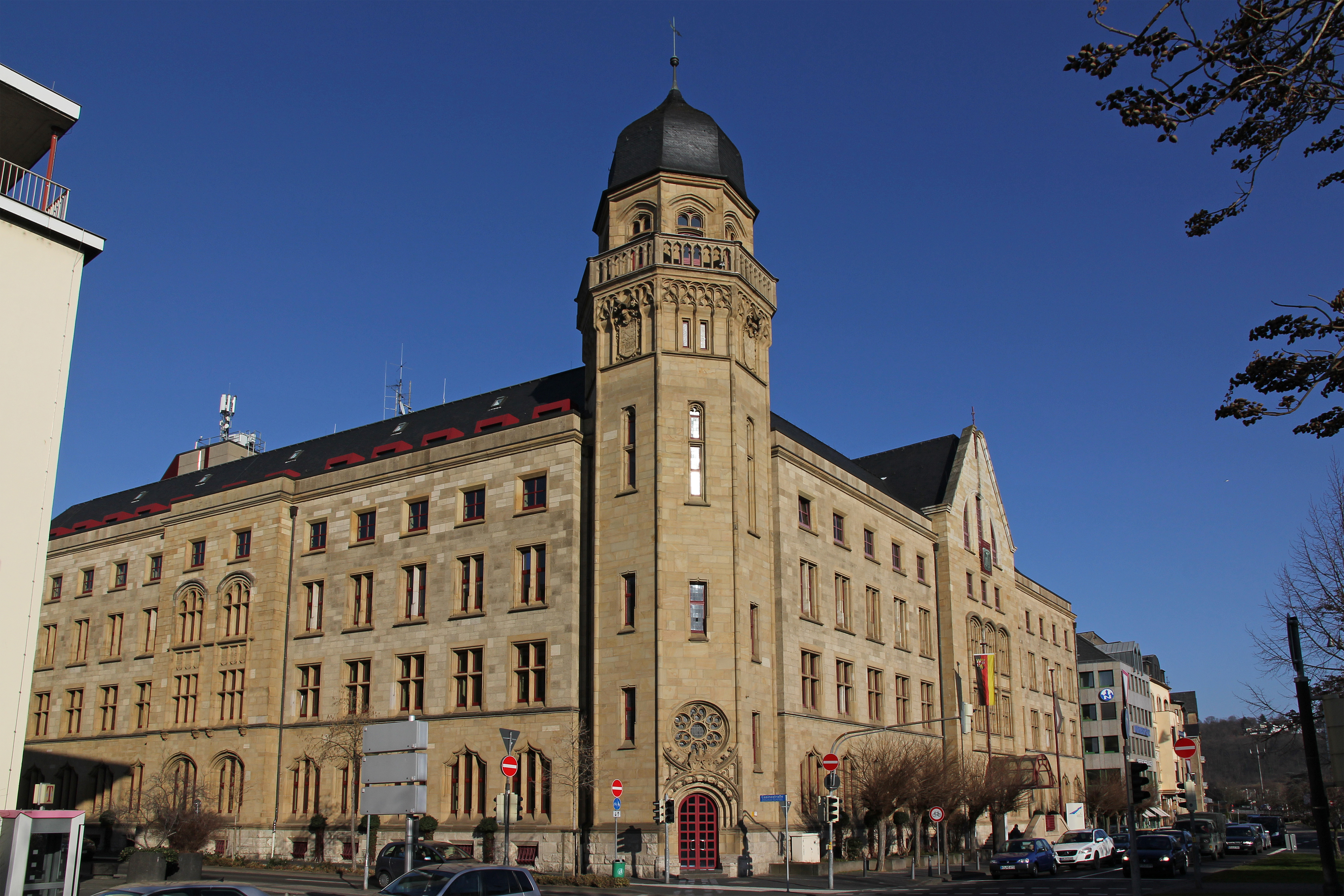 Former Imperial Post Office in Koblenz